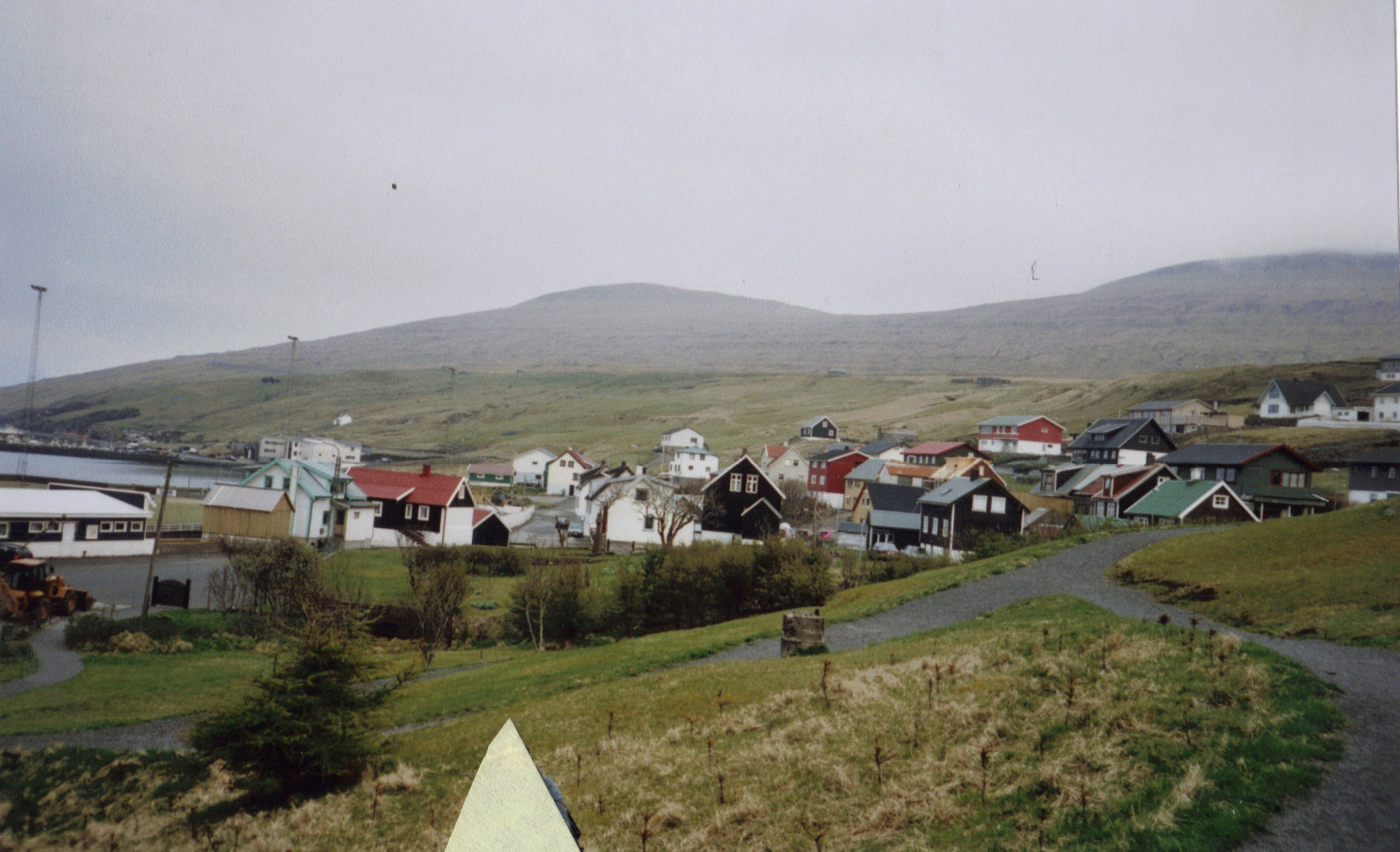 Park "Viðarlundin á Tungu", Miðvágur, Faroe Islands.